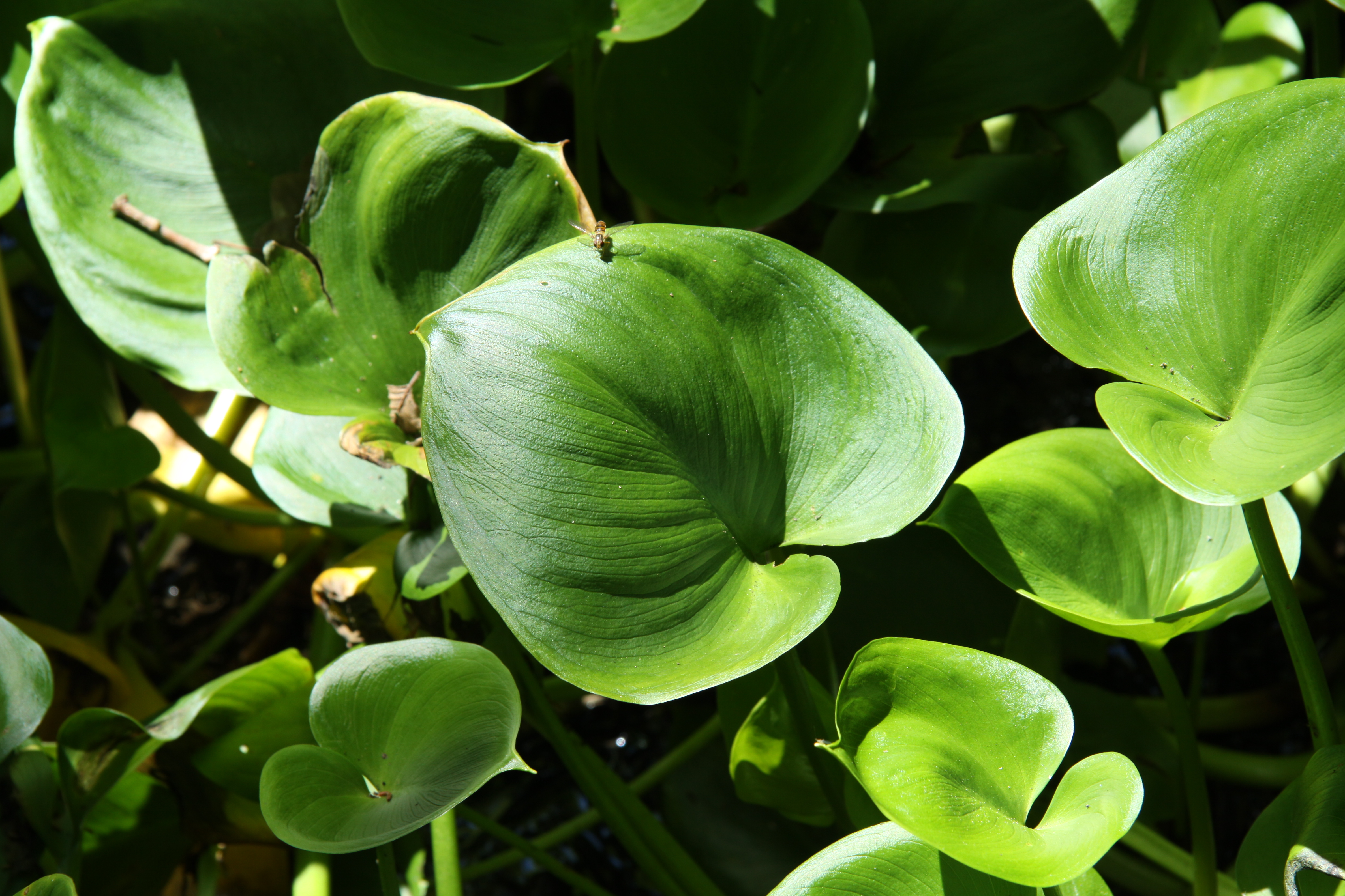 Leaves of Calla palustris in natural monument Stříbrná Huť, Tábor District, Czech Republic